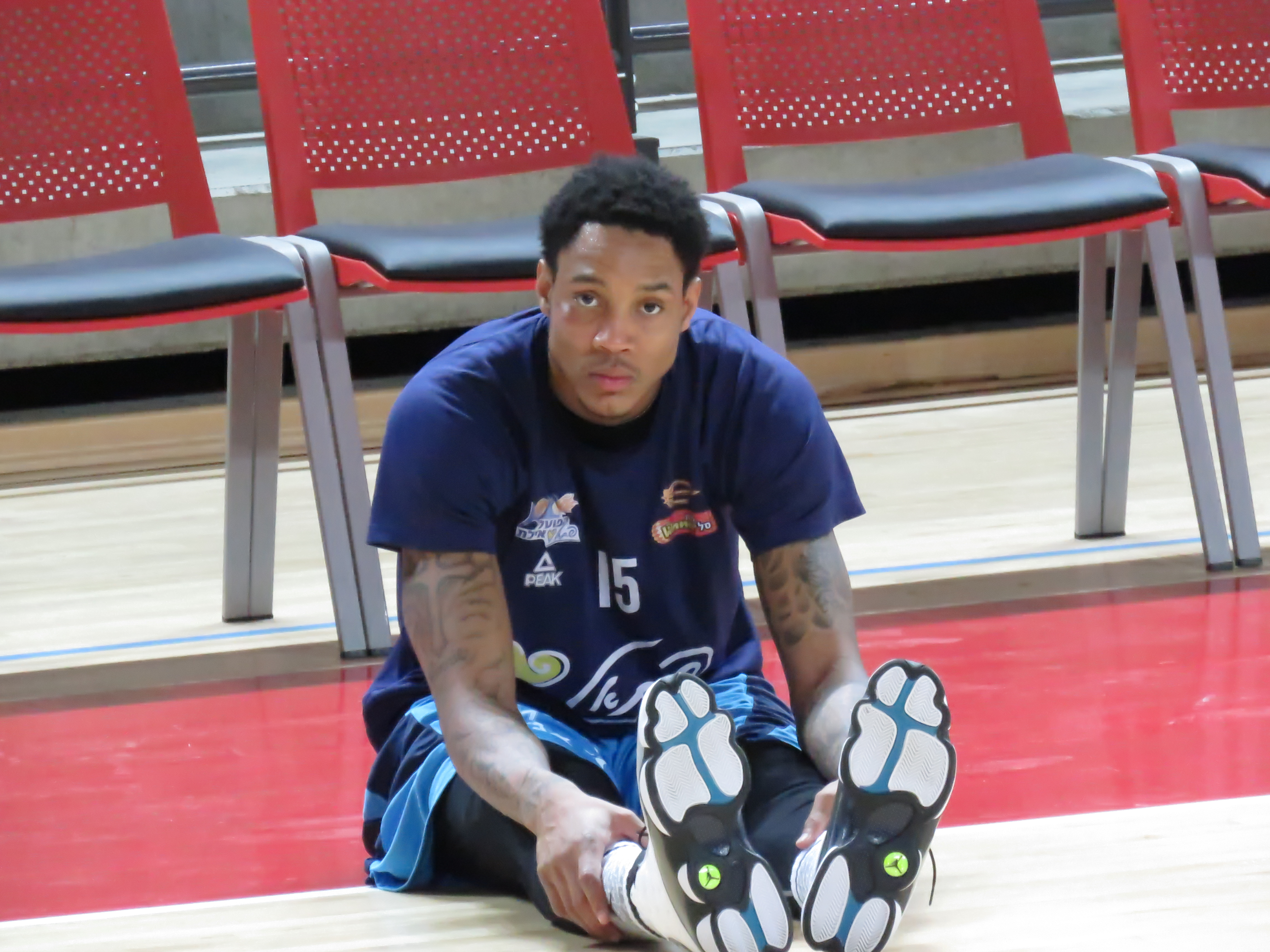 Hapoel Tel Aviv vs. Hapoel Eilat - Pre-season friendly, Septeber 11, 2015